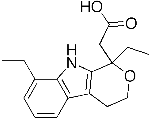 chemical structure of etodolac